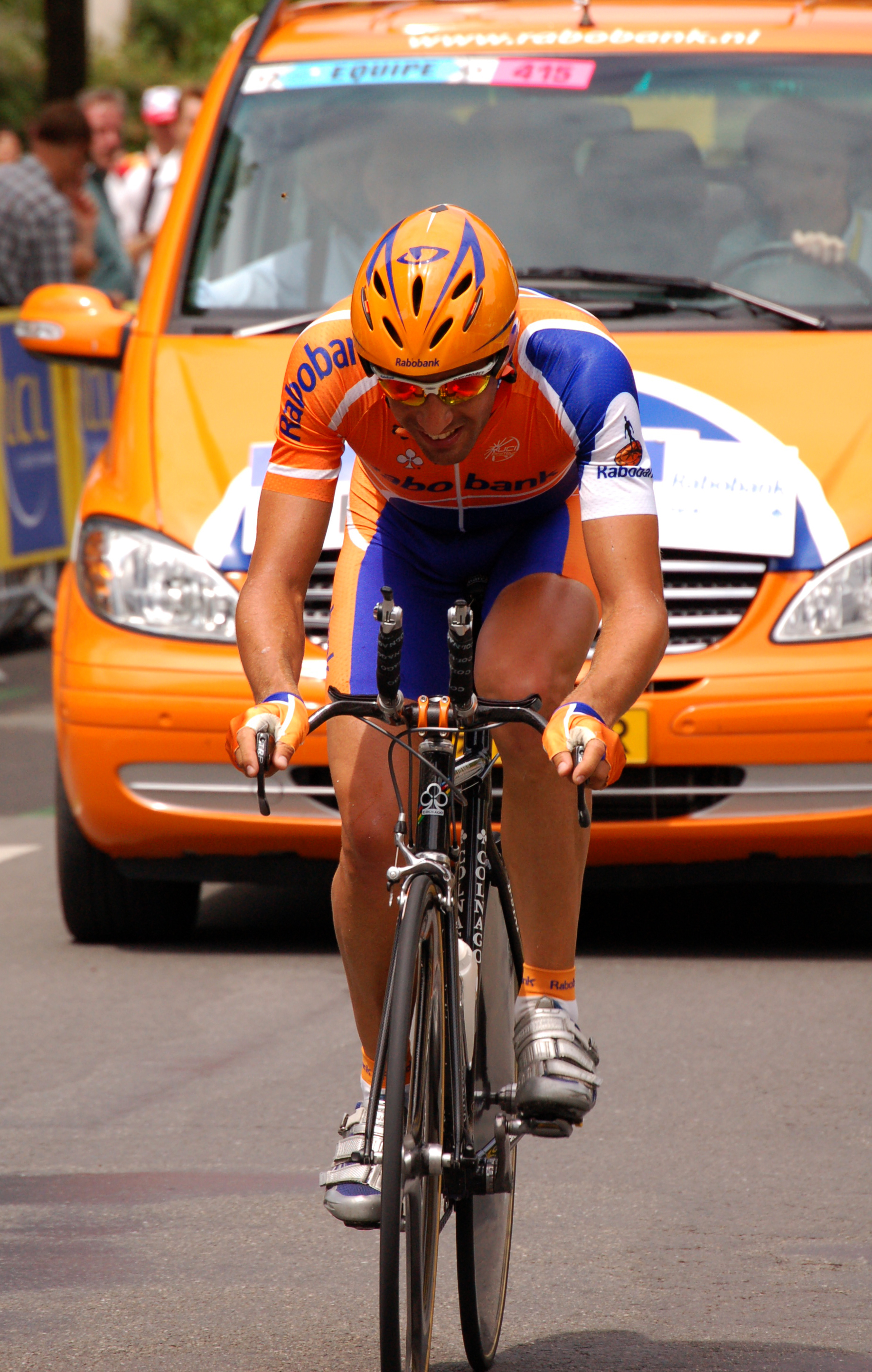 Juan Antonio Flecha during the Tour 2007 prologue